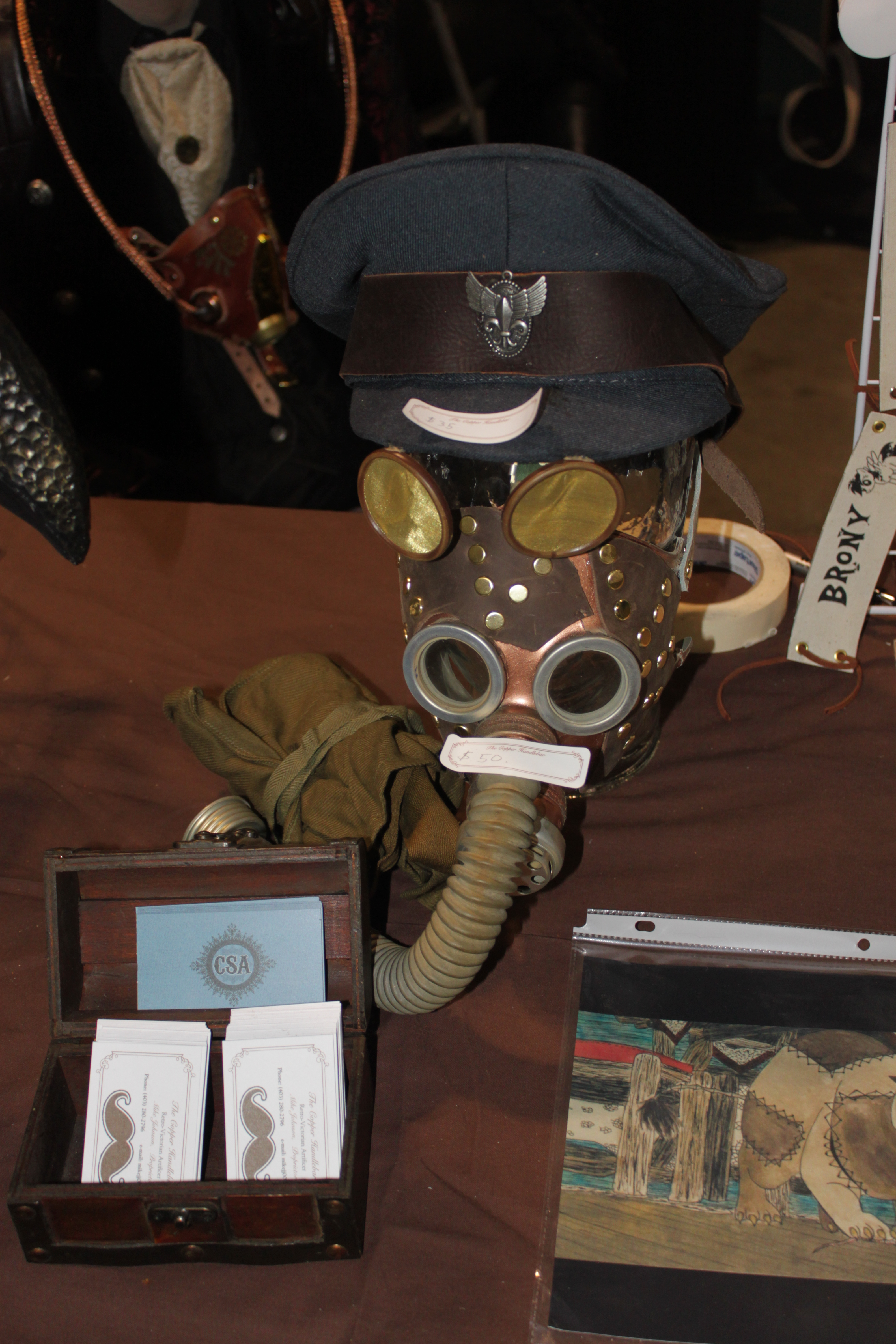 Steampunk gas mask by The Calgary Steampunk Assemblage at the 2013 Calgary Expo. Feel free to edit this section with name, details, etc.